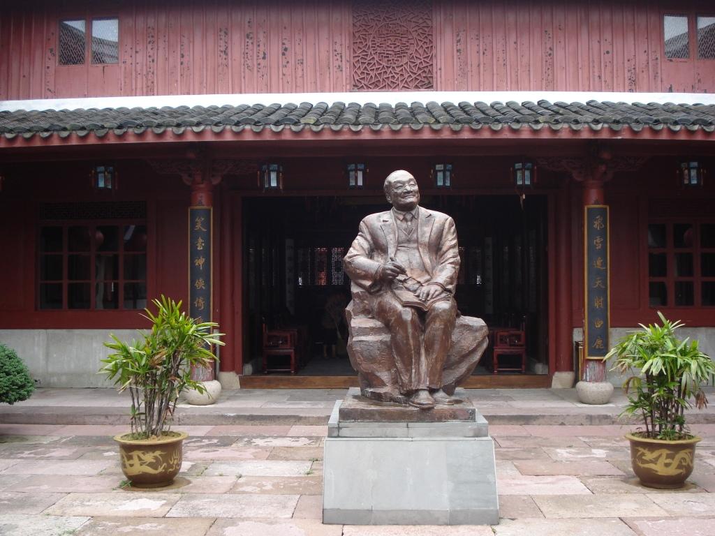 Sculpture of Chinese novelist Jin Yong (Louis Cha), Taohua Island, Zhejiang province